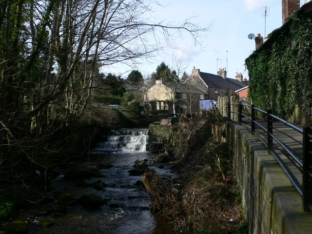 River Eitha at Ruabon, near to Ruabon, Wrexham/Wrecsam, Wales.